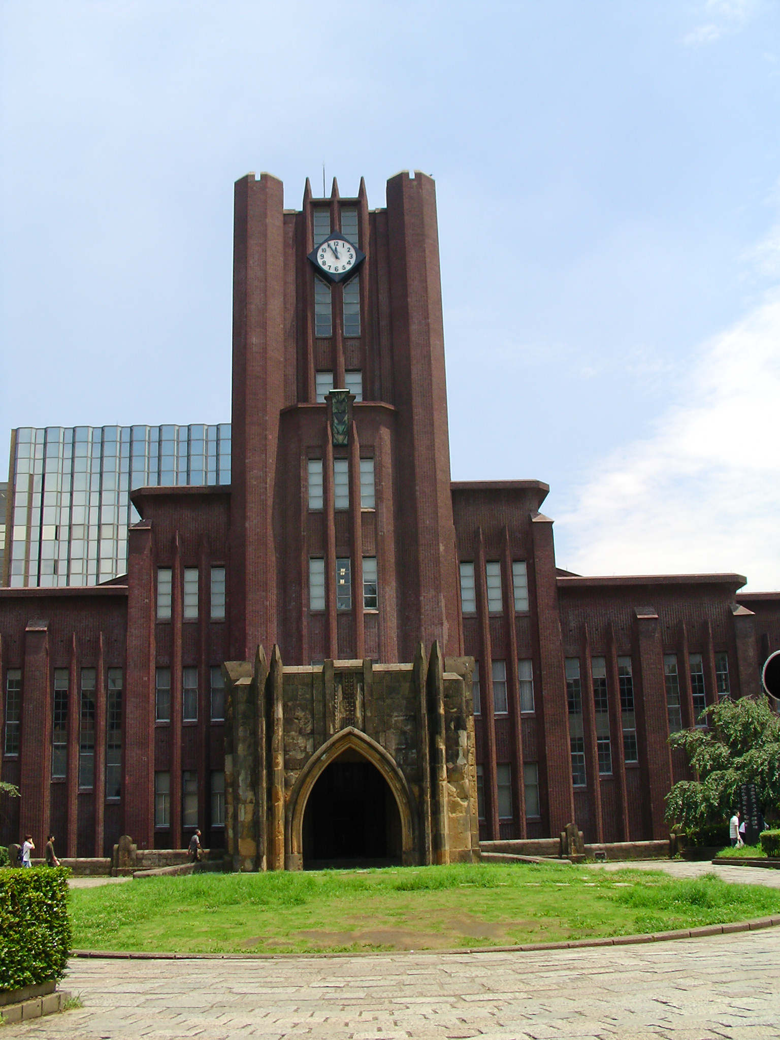 The Yasuda auditorium in the University of Tokyo.